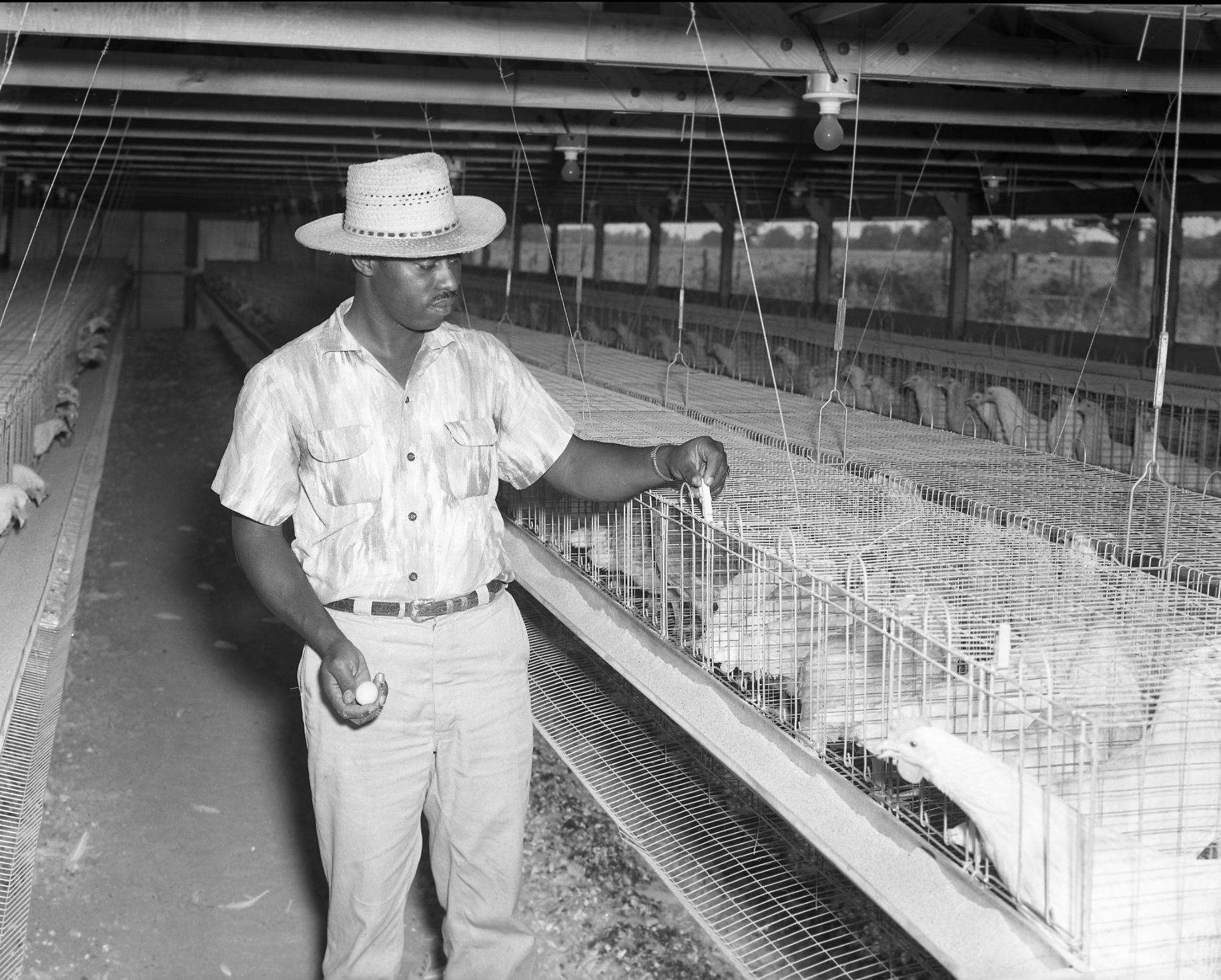 Chicken coop / battery cages in the 1950s: African American man dressed in white wearing a hat in a chicken coop. He is taking eggs out of the chicken cages. Title: Fletcher Morgan Creator (Photographer): Sloan Publisher: Agricultural Communications Office of the Texas Agricultural Extension Service Place of Publication: College Station, Texas Year (Coverage): 1954 Document Type: Image Note: Ft. Bend County, Texas Collection: Texas A&M University Archives Resource Identifier: Agricultural Communications Collection, Box 1, File 1-129dd